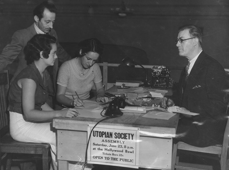 Photo shows the desk in the office where prospective members of the Utopian Society pay their dues and are given membership cards. Photo dated: June 21, 1934.